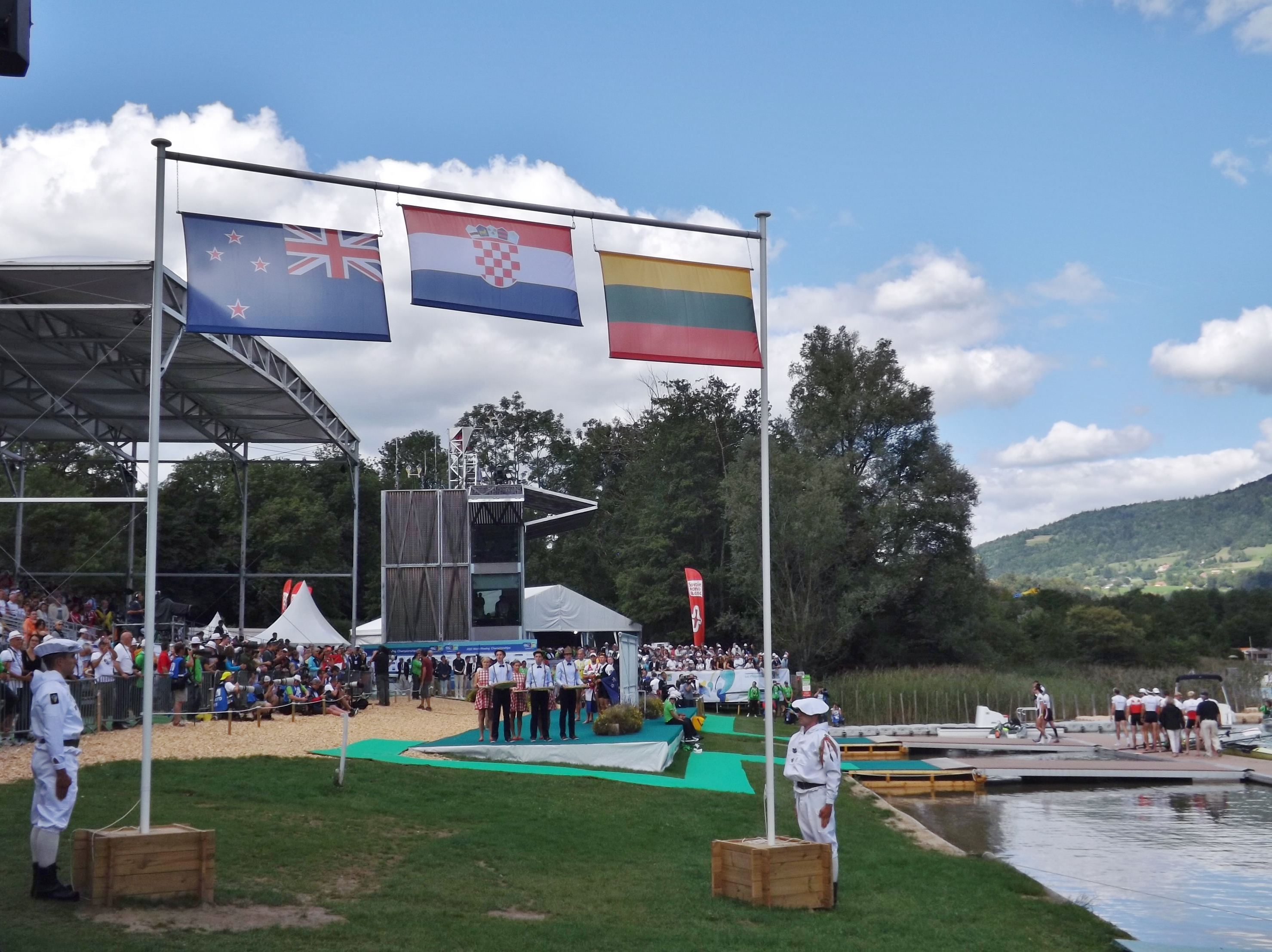 Medals ceremony, won by Croatia, Lituania and New Zealand, during the 2015 World Rowing Championships taking place on the lac d'Aiguebelette lake, in Savoie, France.